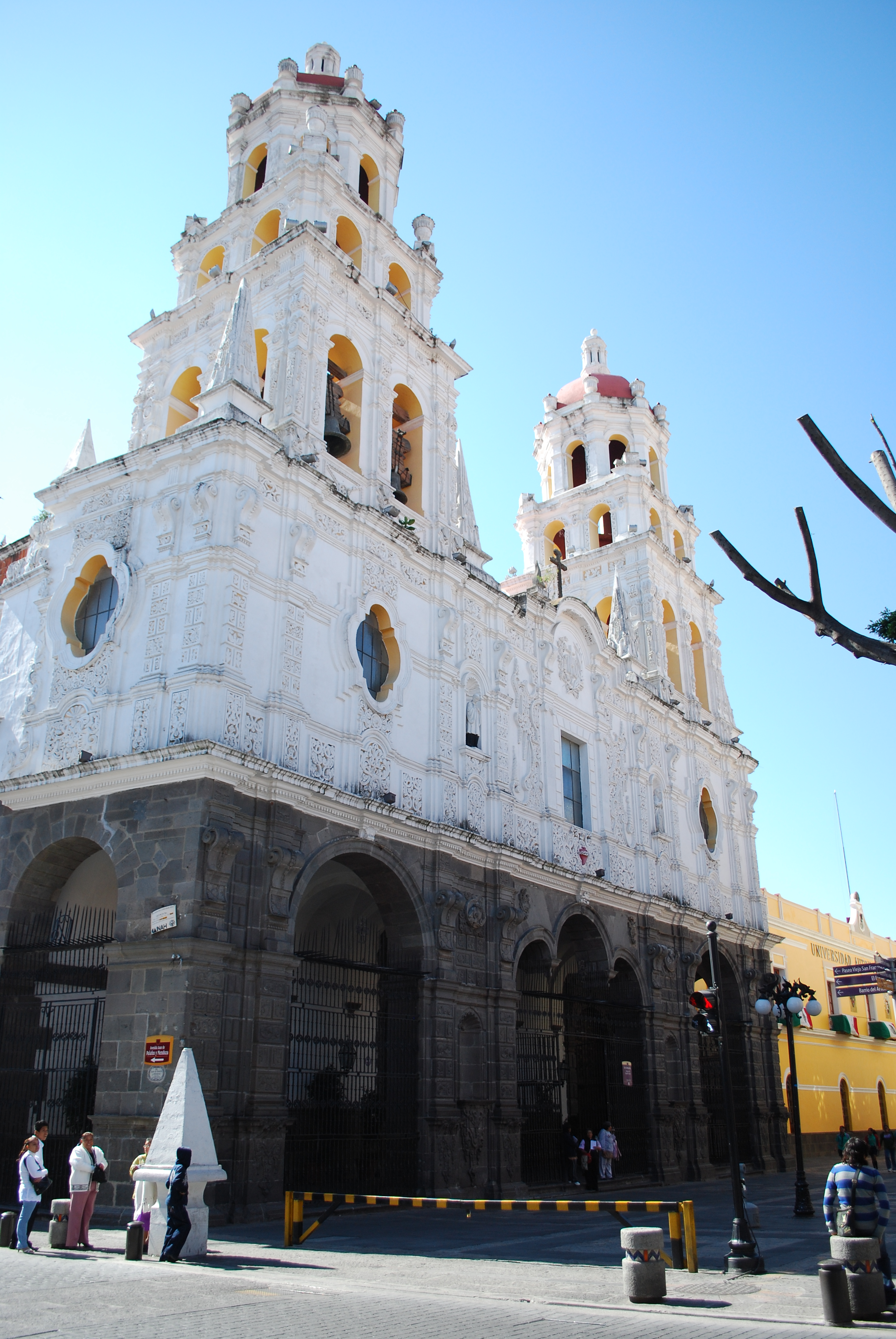 Facade of the La Compañia Church in Puebla, Mexico